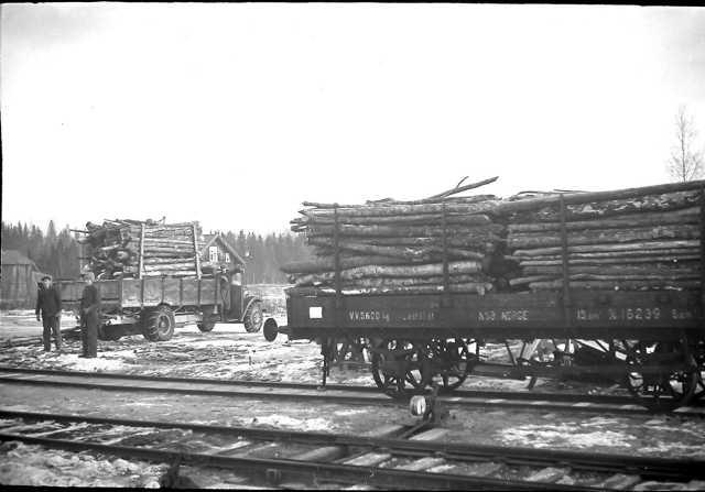 Roverud Station on the Solør Line in Kongsvinger, Norway